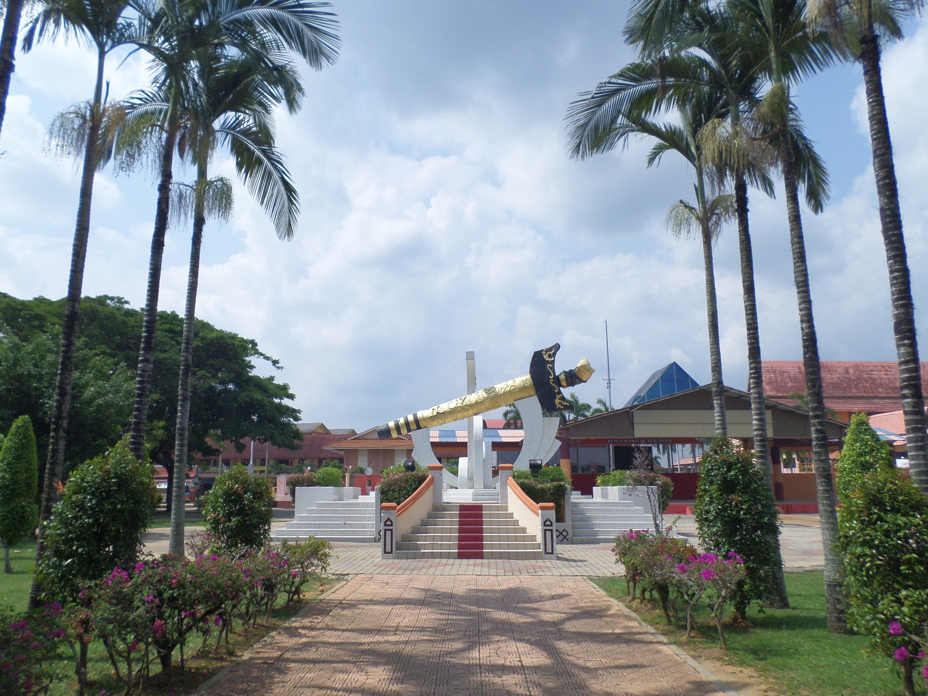 Alor Gajah Square, Alor Gajah, Melaka, MalaysiaBahasa Melayu: Dataran Alor Gajah, Alor Gajah, Melaka, Malaysia